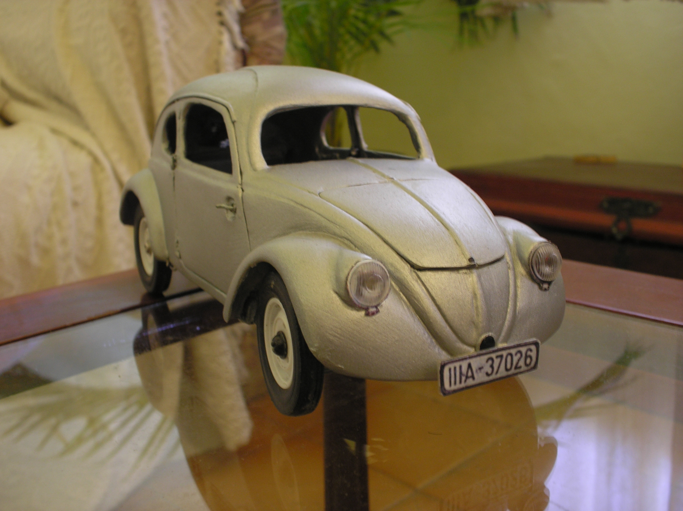 My 1:18 VW 30. Still some polishing left to do.